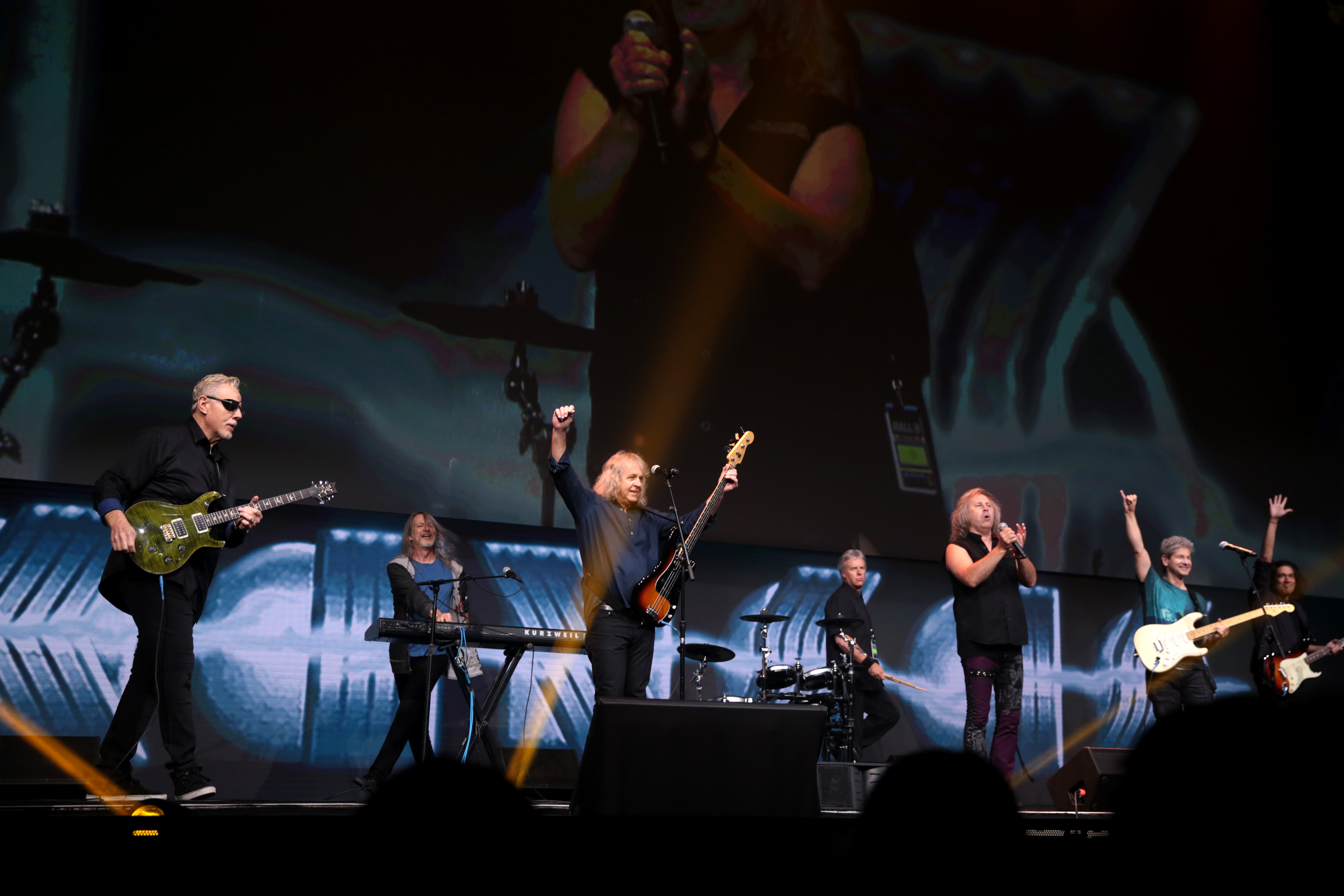 Kansas performing at the 2017 San Diego Comic Con International, for "Supernatural", at the San Diego Convention Center in San Diego, California.